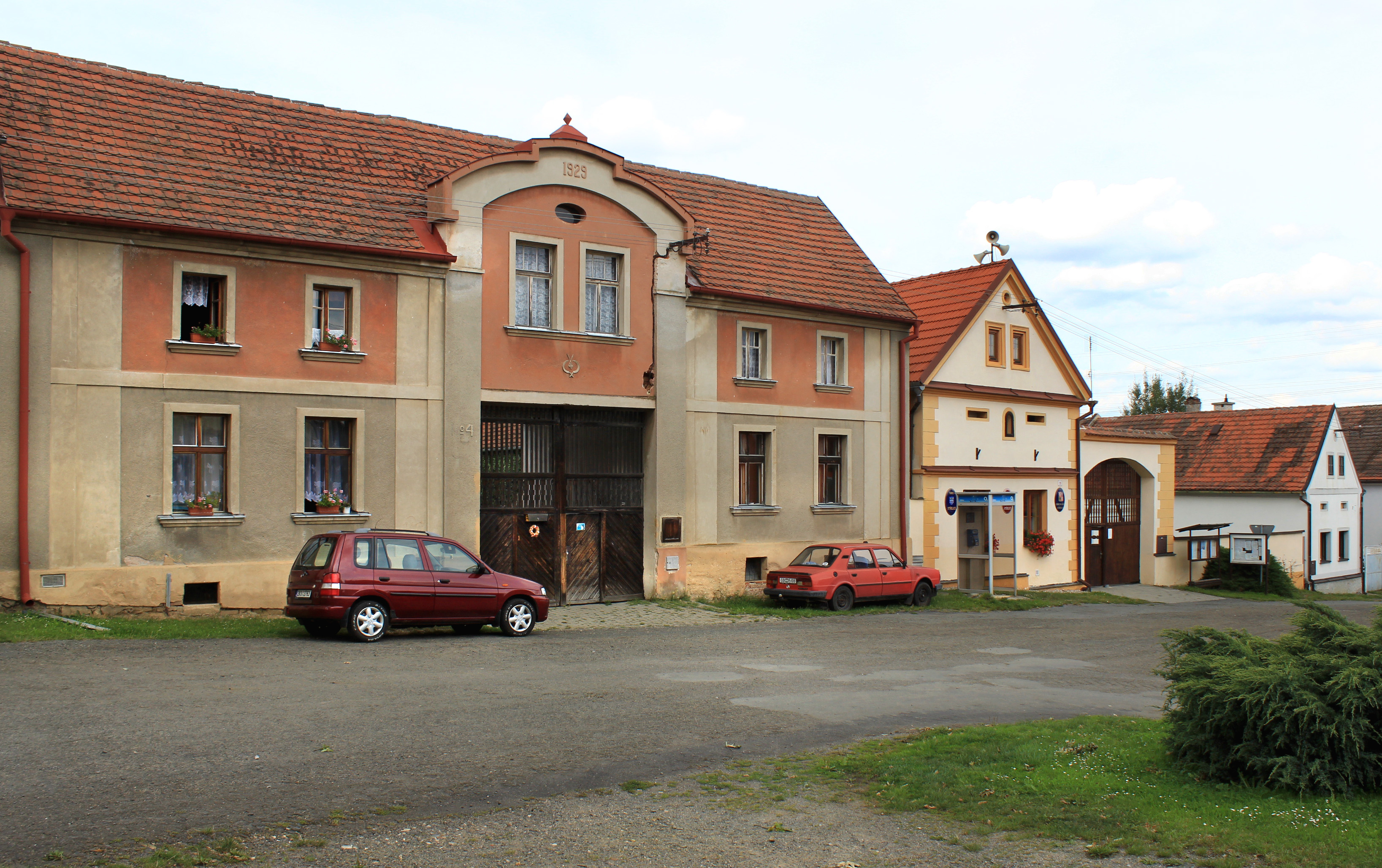 Common in Střelice, Czech Republic.